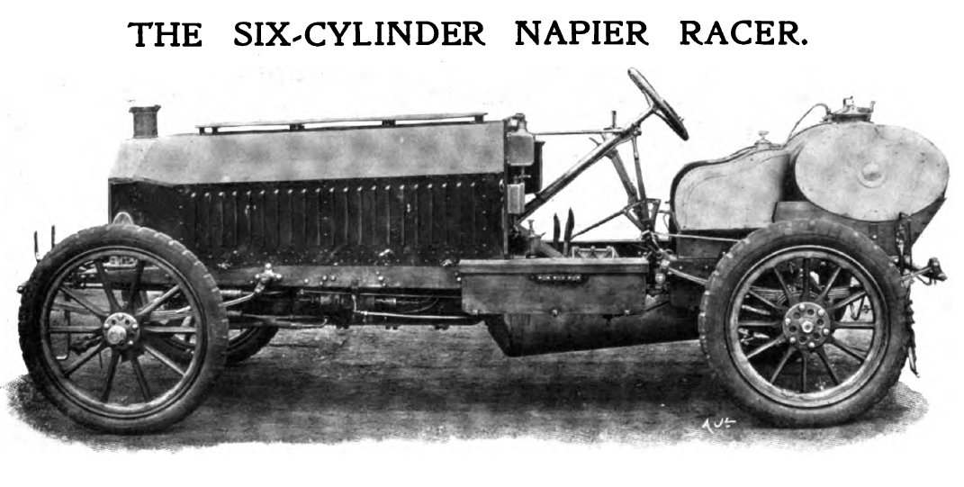 Taken from a detailed article in Automotor magazine, June 1904, on the latest Napier race car. The engine had six separate cylinders with mechanically operated inlet valves. It was rated at 80hp (though the article states it was expected to be capable of 'considerably more power'). The inlet valves were in the same place as normal atmopsheric valves, above and facing the exhaust valves, but were operated by a pushrod and rocker. The gearbox was only 2-speed, and the car weighed 19cwt. Captioned As { }